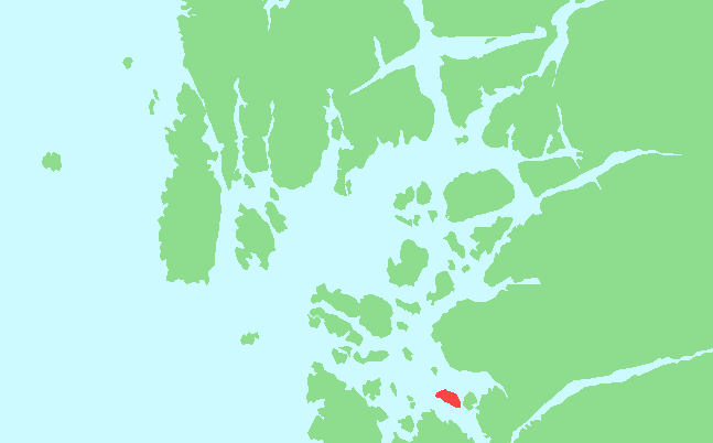 Locator map of Idse, Rogaland, Norway